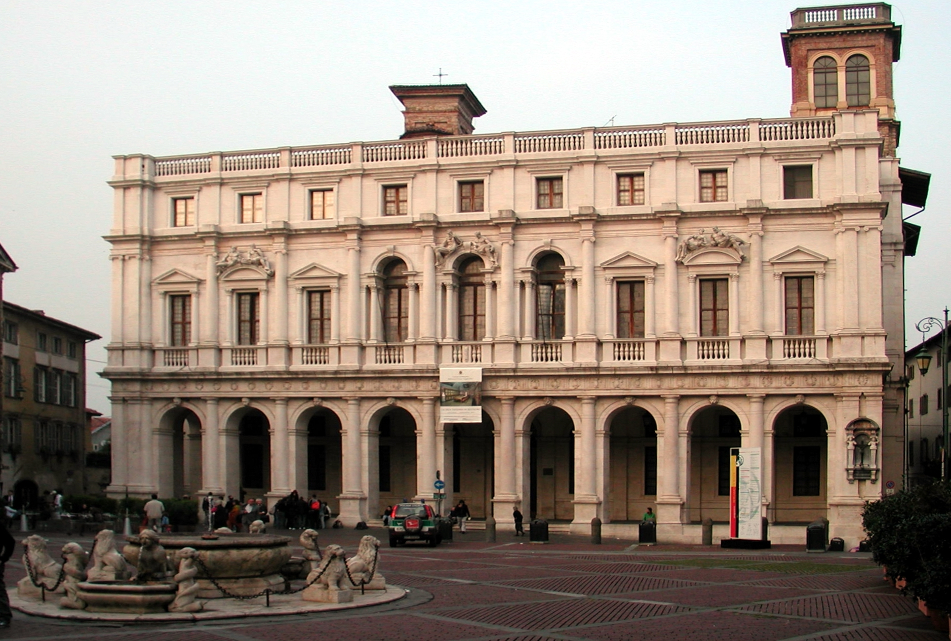 Bergamo, Lombardy, Italy